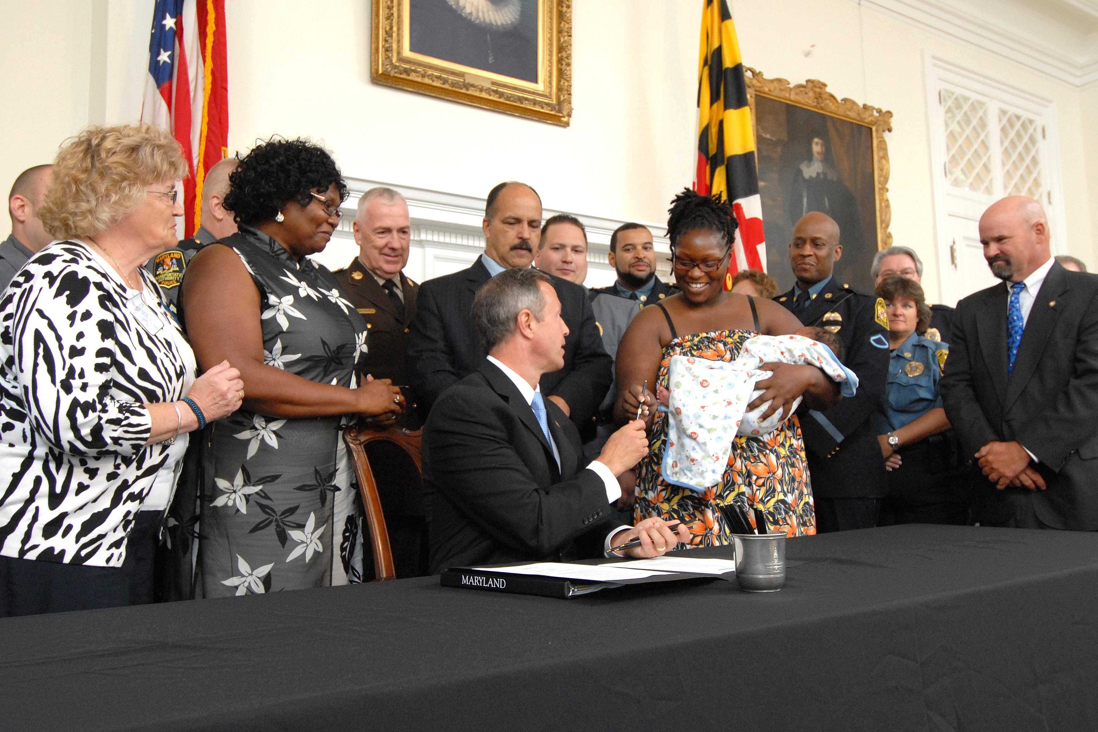 Governor omalley signs executive order for blue alert